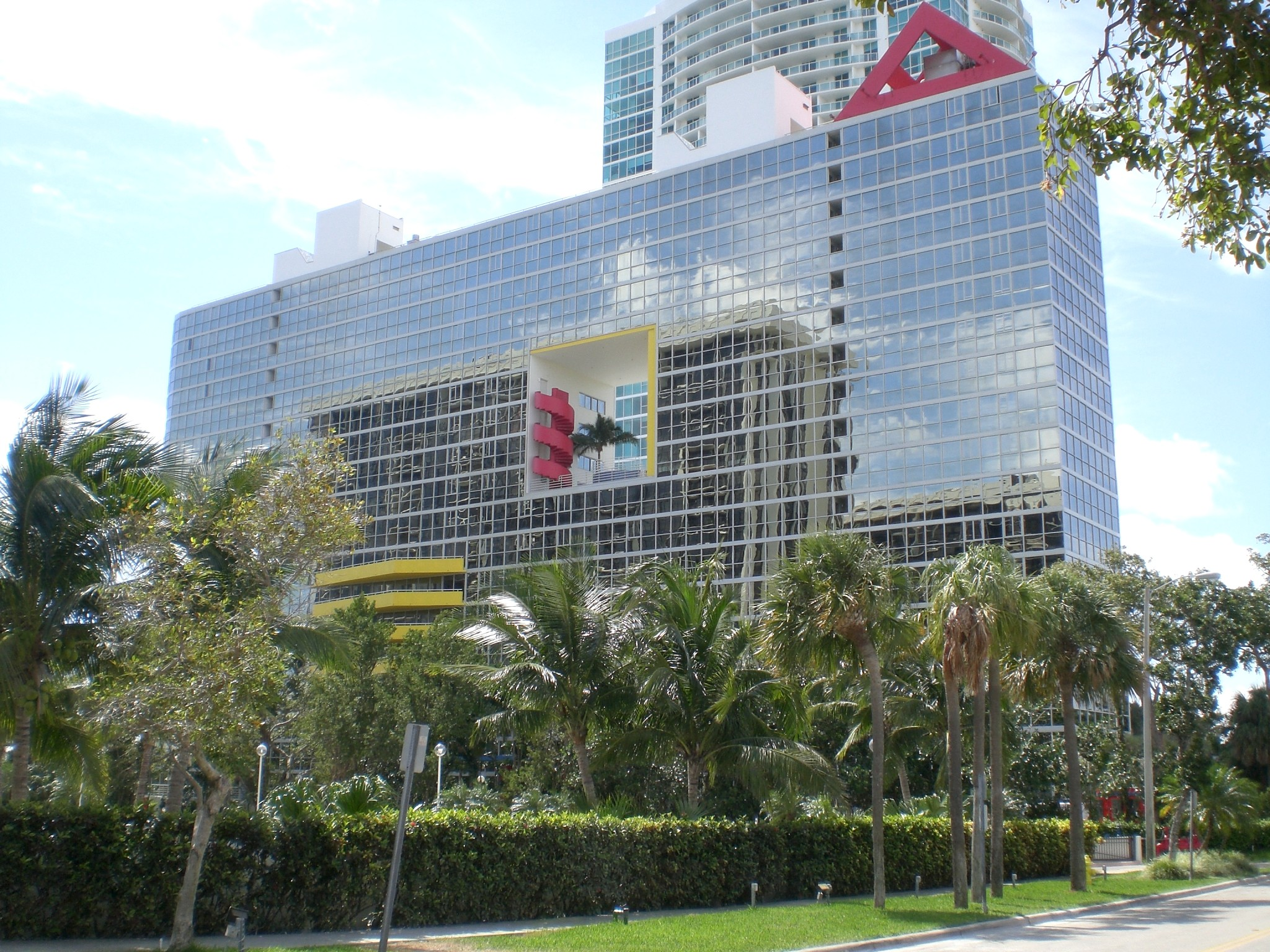 Digital photo taken by Marc Averette. Atlantis Condominium from Brickell Avenue in downtown Miami, Florida. 3/7/2007.